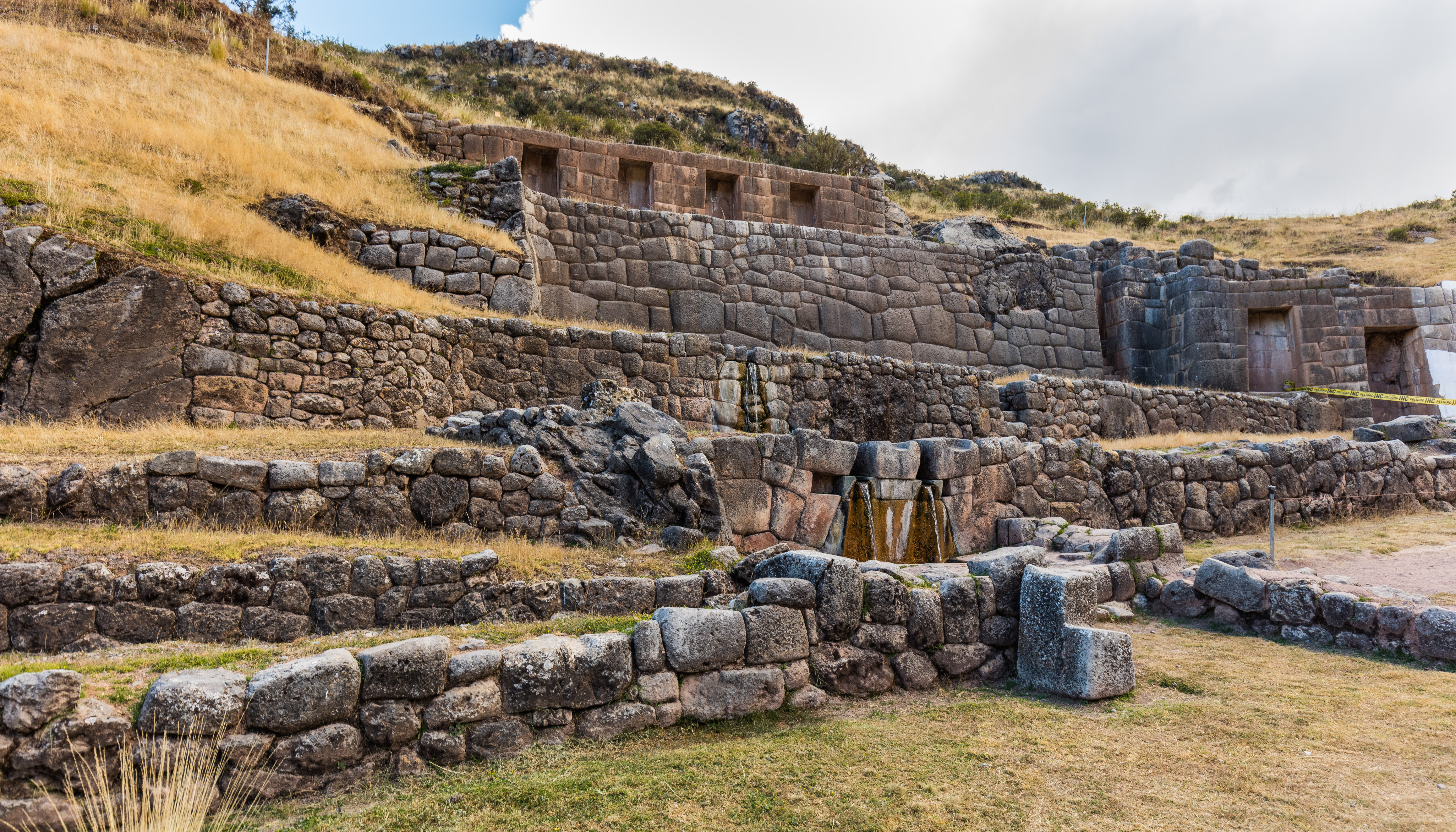 Tambomachay, Cuzco, Peru